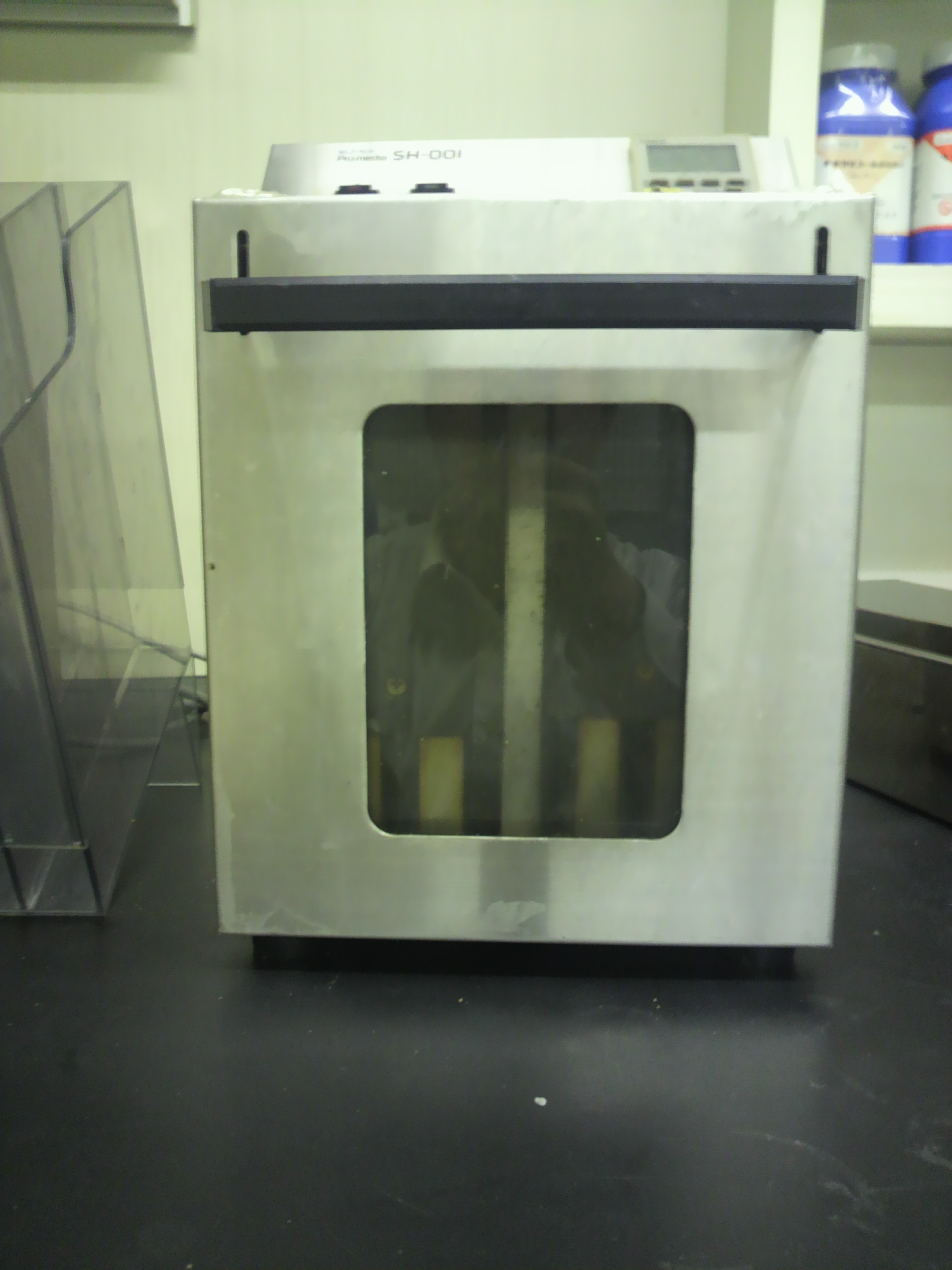 stomacher